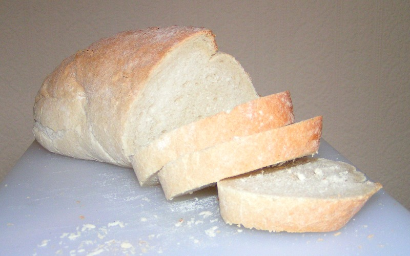 A loaf of white bread. Photo by sannse, 18 July 2004.